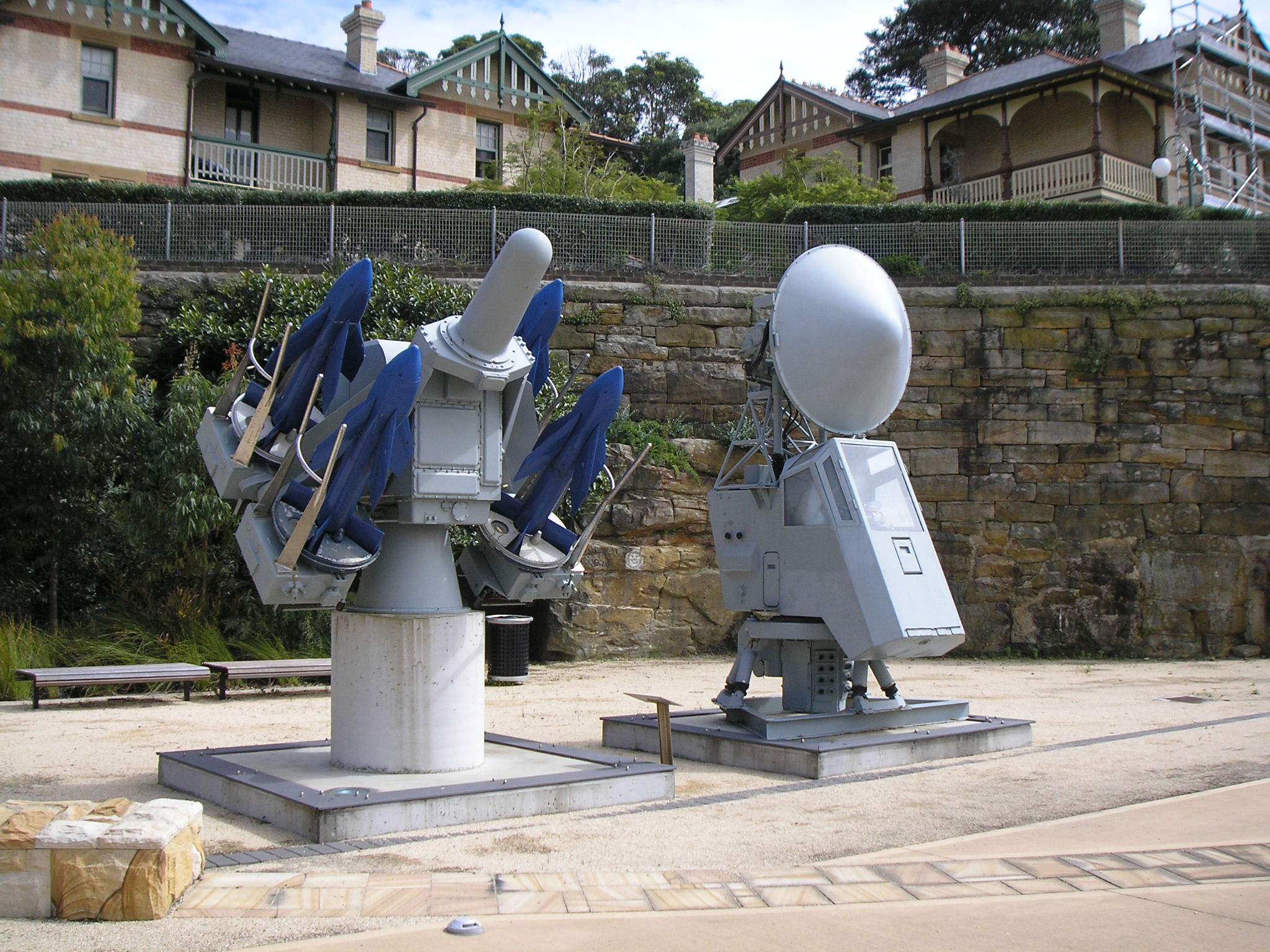 A Sea Cat missile launch system on display at the Royal Australian Navy Heritage Centre in Sydney